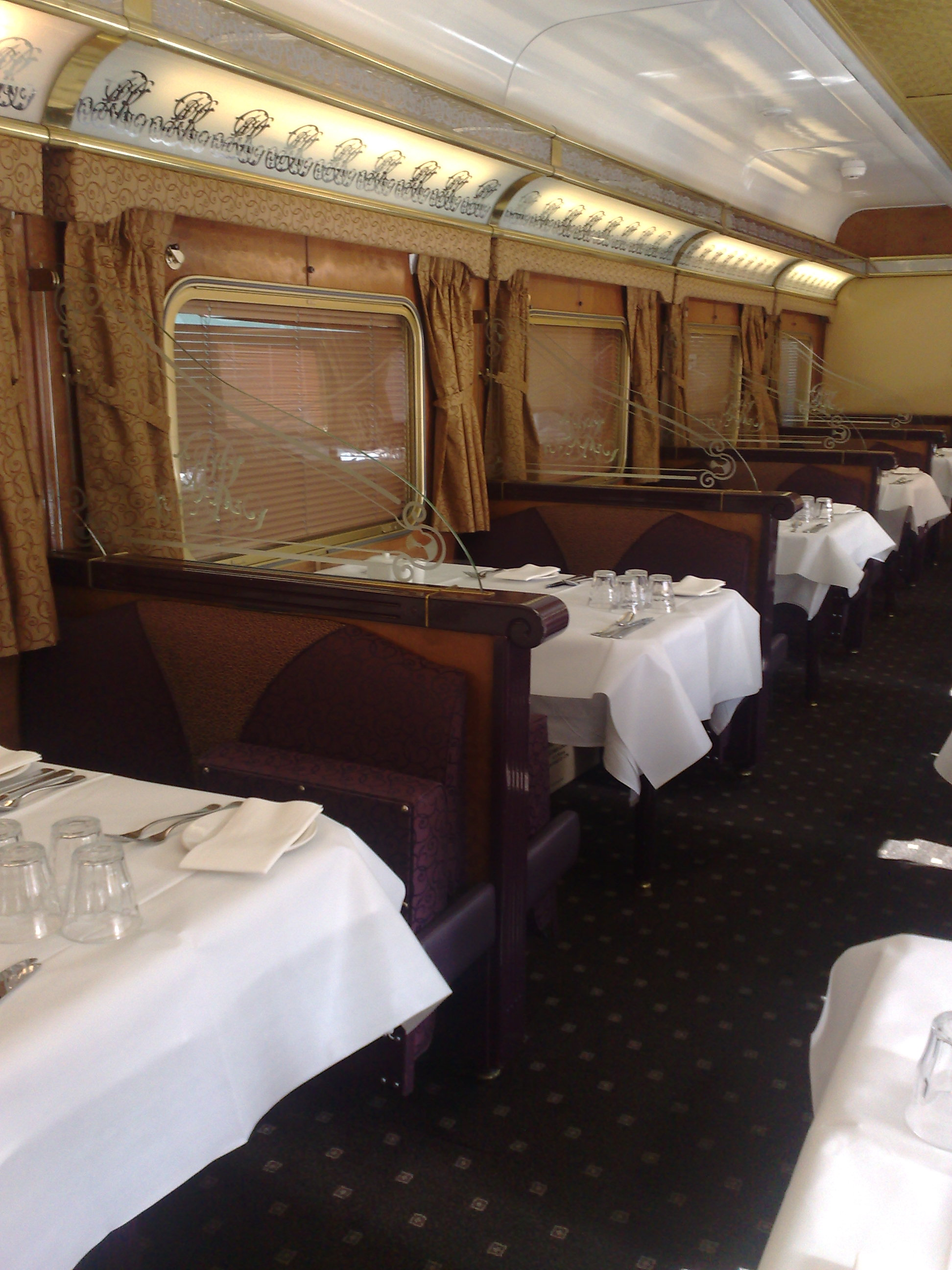 Indian Pacific Train, Australia. Dining Car interior